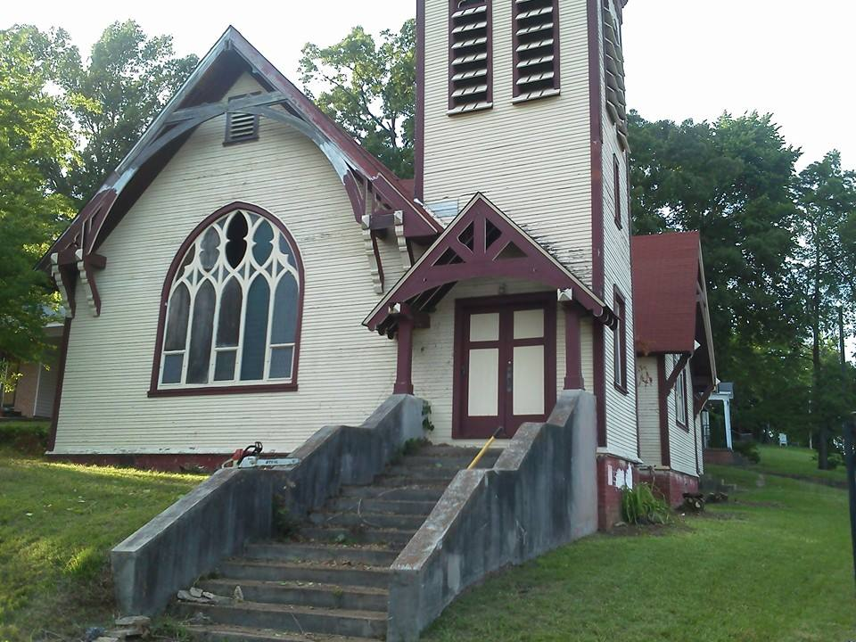 First Presbyterian Church Chapel/Museum restoration project, 1912 1st Presbyterian Church, Nashville, AR, photo 2014